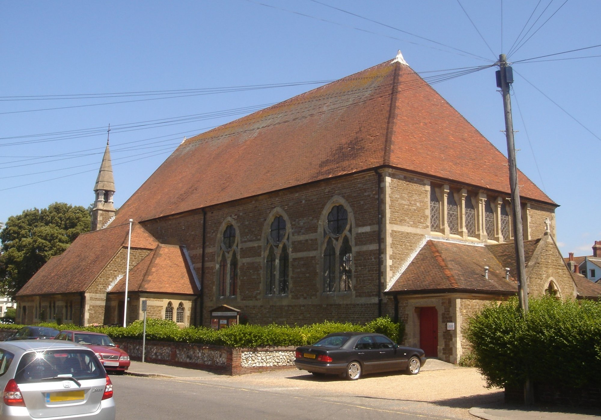 St George's parish church, St George's Road, Worthing, West Sussex, England, seen from the southwest